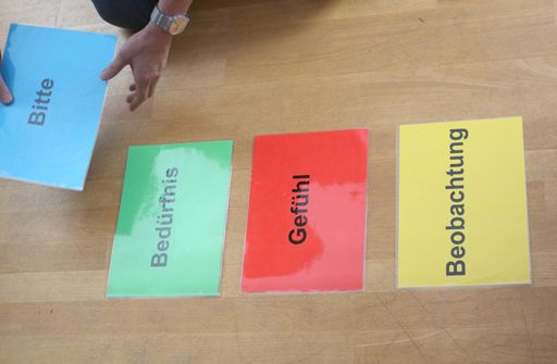 Nonviolent communication: observation, feeling, need and request (in German).